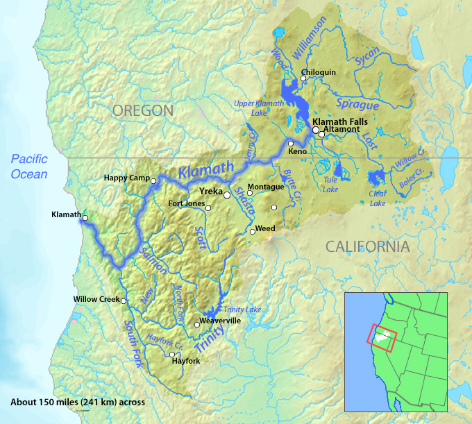 Map of the Klamath River watershed in northern California and south-central Oregon, that drains to the Pacific.